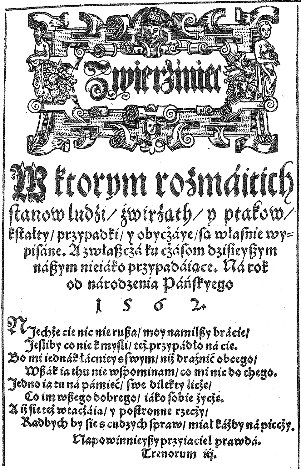 First page of Źwierzyniec by Mikołaj Rej, Kraków 1562